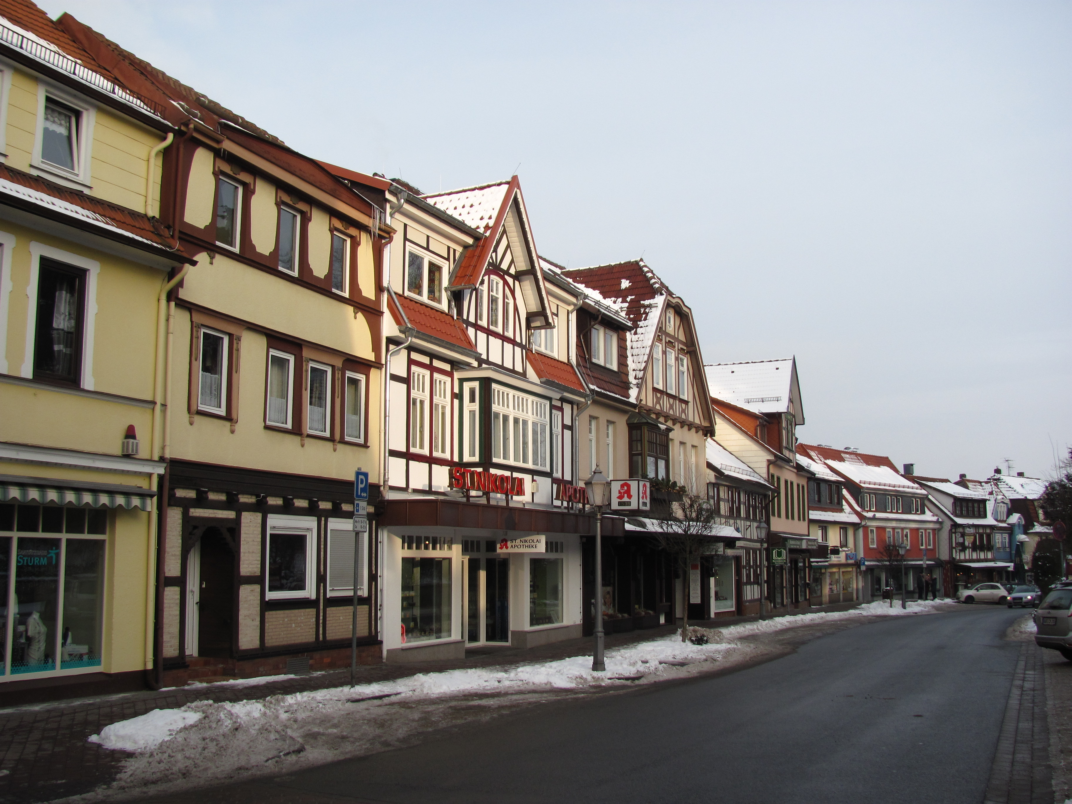 Market Place, Bad Sachsa, Harz mountains, Lower Saxony, Germany